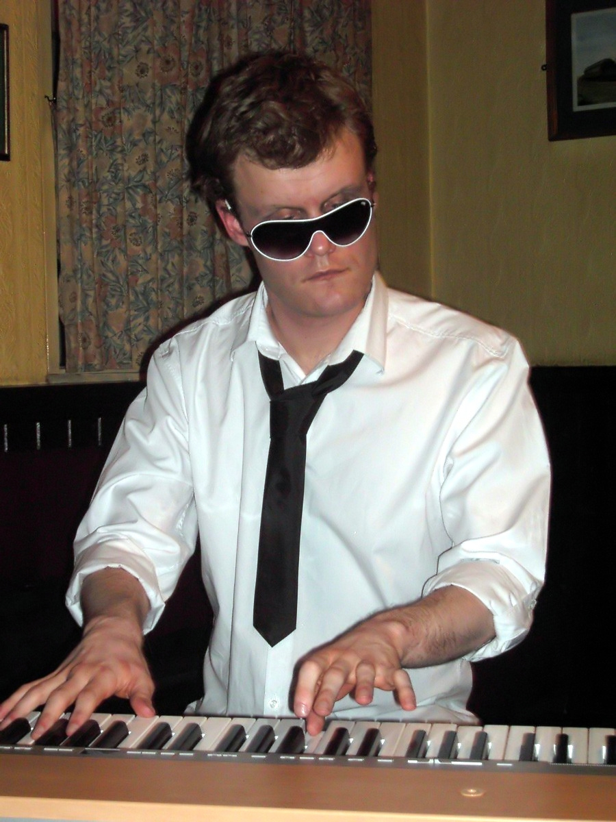 Photo of Derek Paravicini by Nick Wells, taken at the Station Hotel 20 of April 2008. Musical instrument is Yamaha P-140S